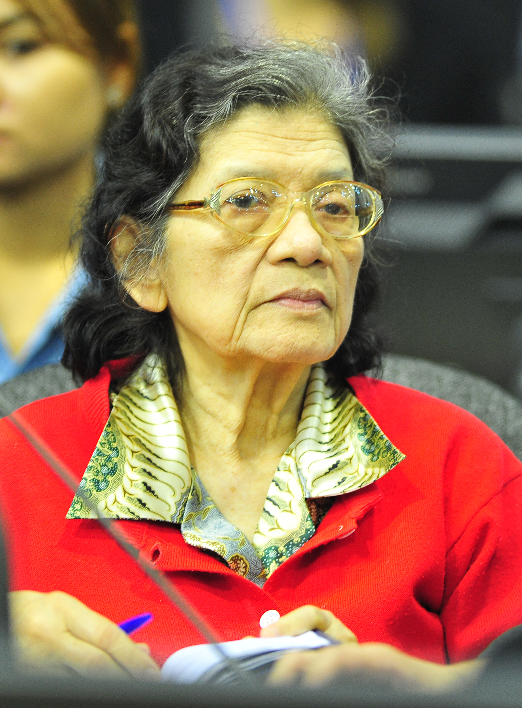 30 June 2011: Ieng Thirith during the intial hearing in Case 002. ... ភាសាខ្មែរ: ថ្ងៃទី៣០ ខែមិថុនា ឆ្នាំ២០១១៖​ អៀង ធីរិទ្ធ នៅក្នុង​សវនាការ​បឋម​ក្នុង​សំណុំរឿង ០០២